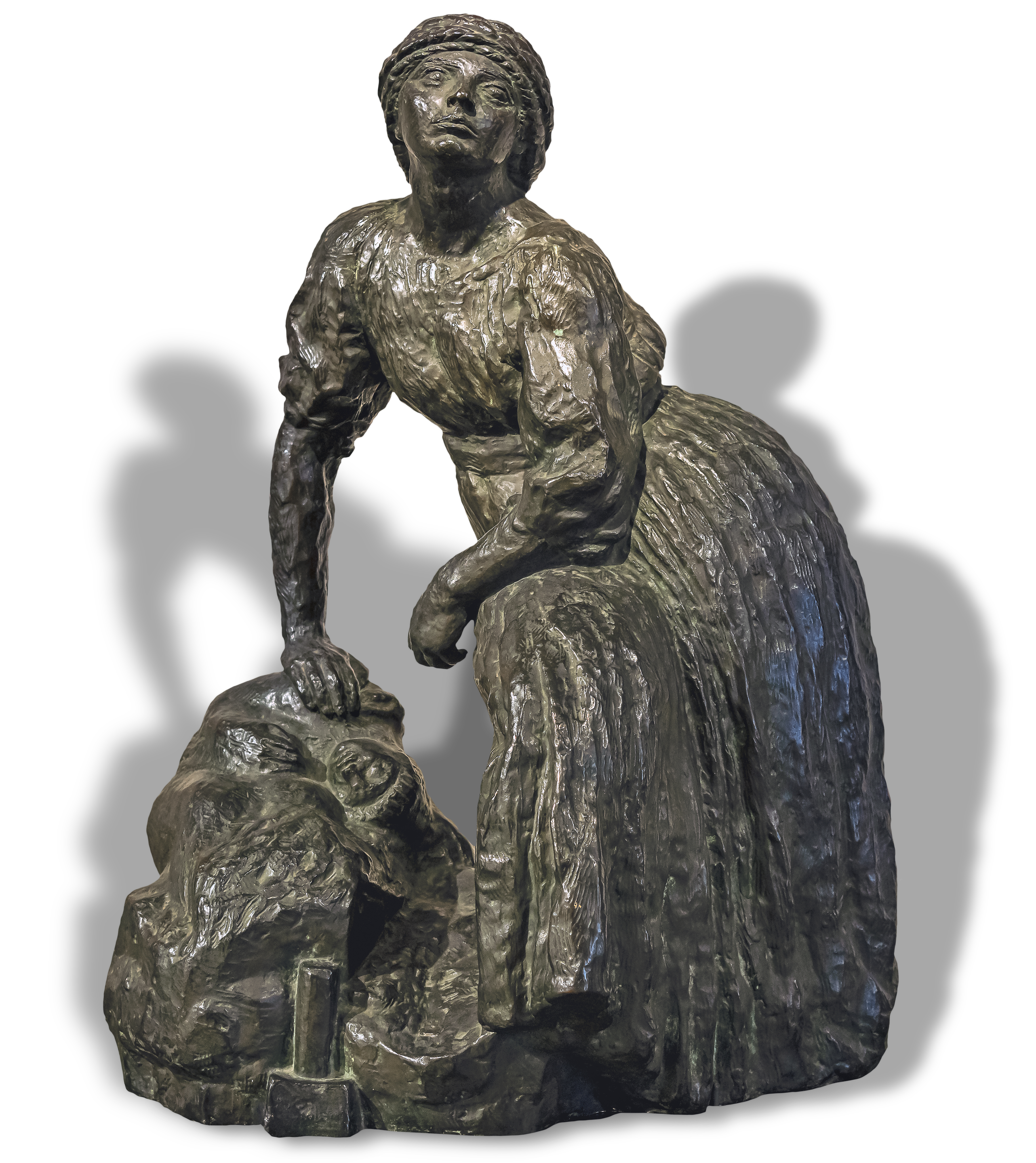 Depicted person: Cléopâtre Bourdelle-Sevastos – French sculptor and autobiographer